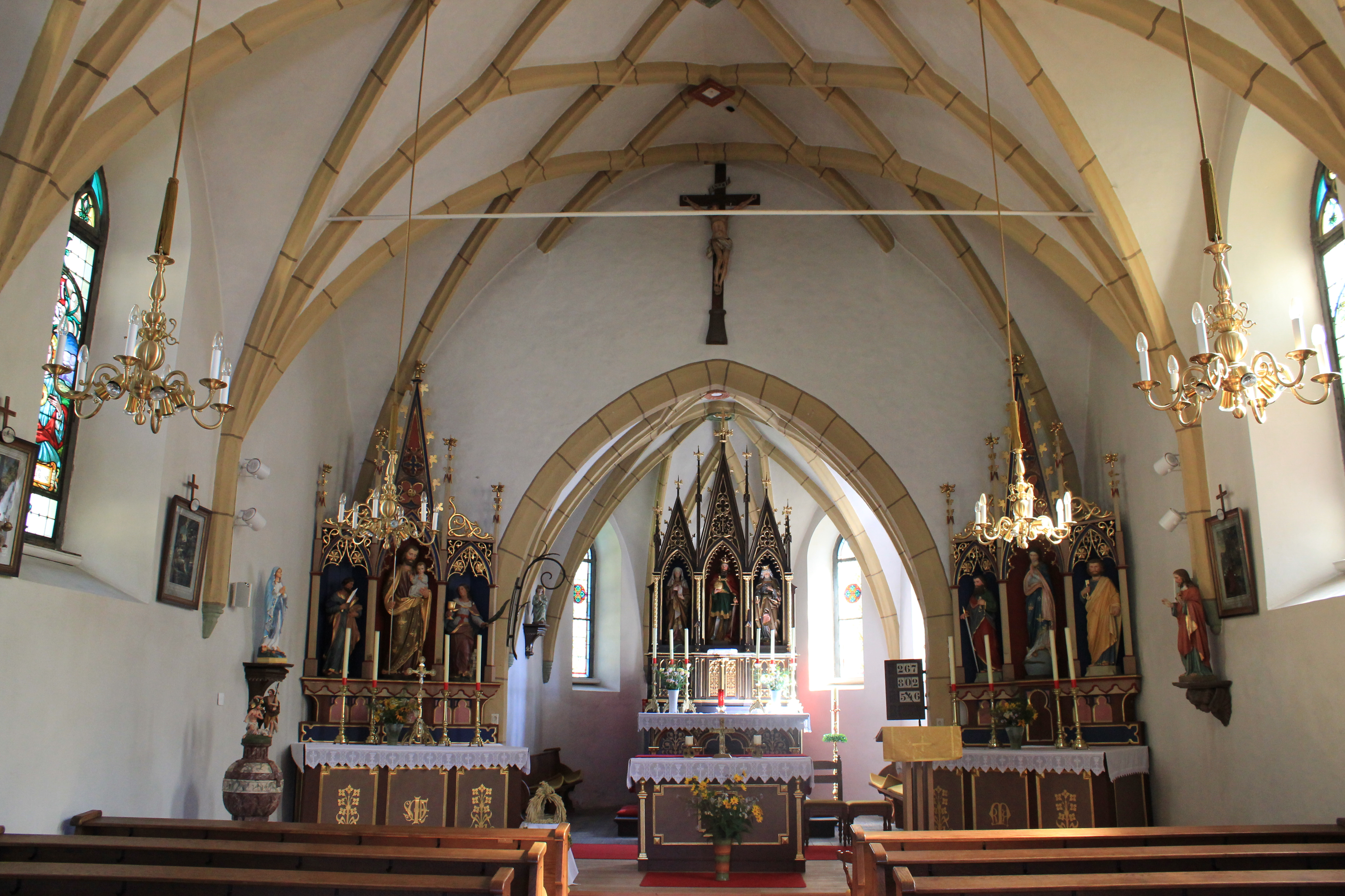 Parish church Saint Heinrich in the community of Bad Bleiberg - Interior